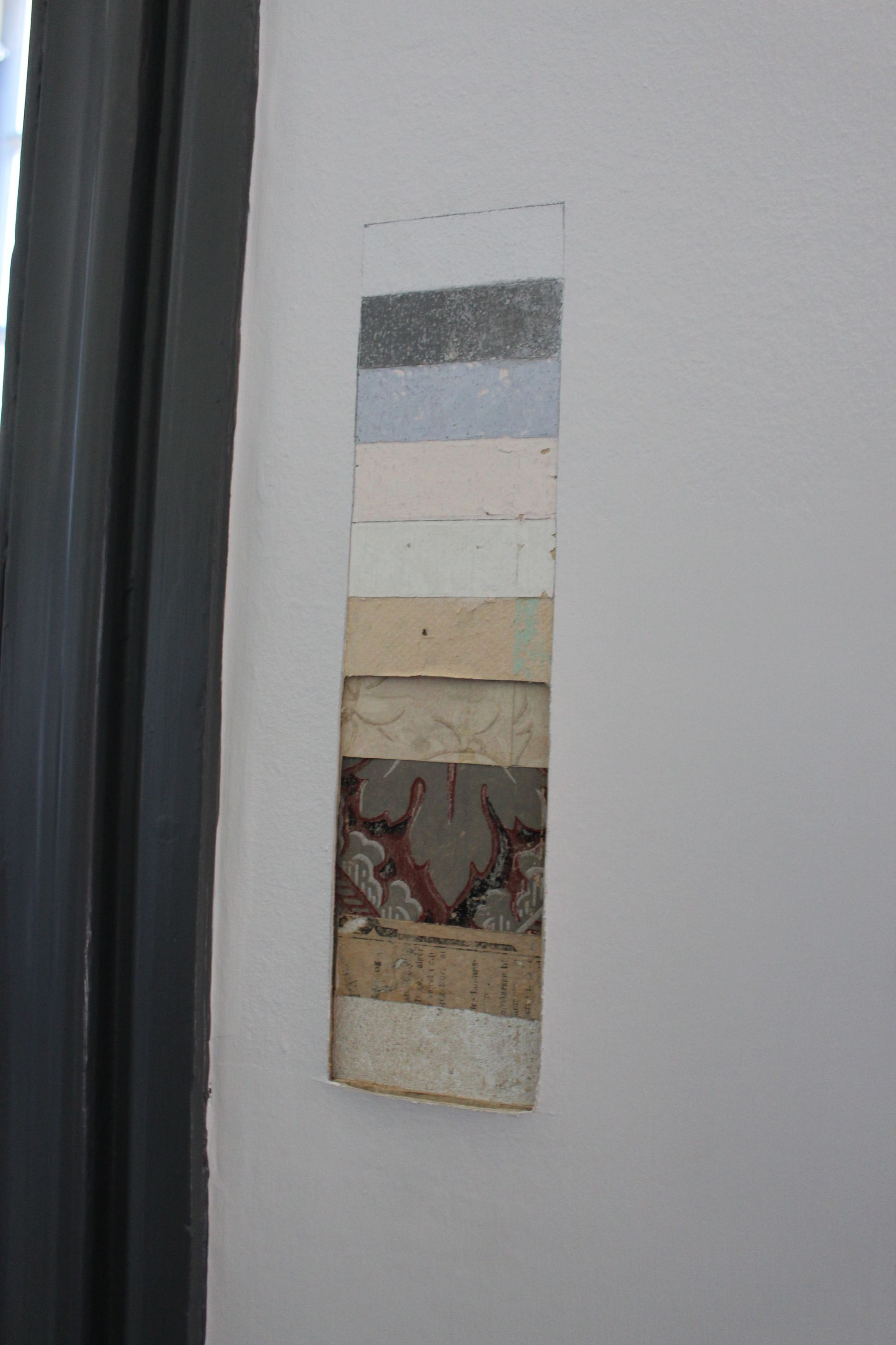 Different layers of painting and tapestry